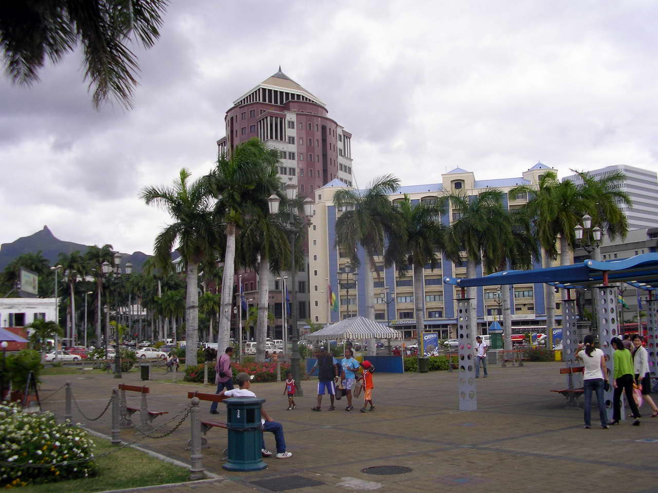 Port Louis (2006) - the capital city of Mauritius